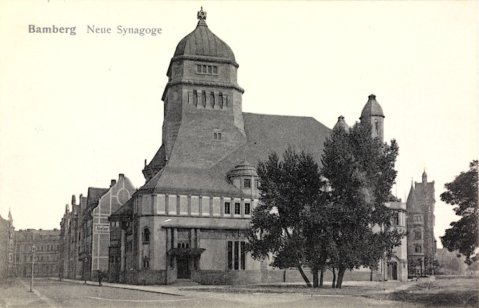 Synagogue of Bamberg (1910-1938) - Lateral view